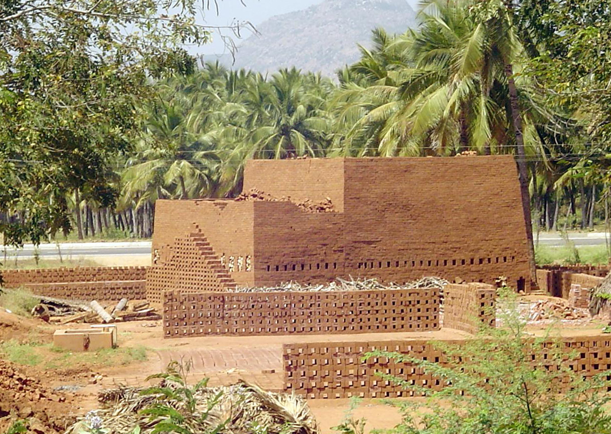 photographed by Pratheepps